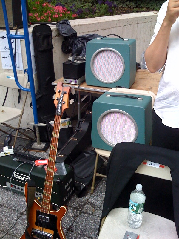 Robert from the Band of Susans' setup. The cabinets were old Honeywell ones, iirc, from an old film projector setup. For Rhys Chatham's _Crimson Grail_, that was never performed.